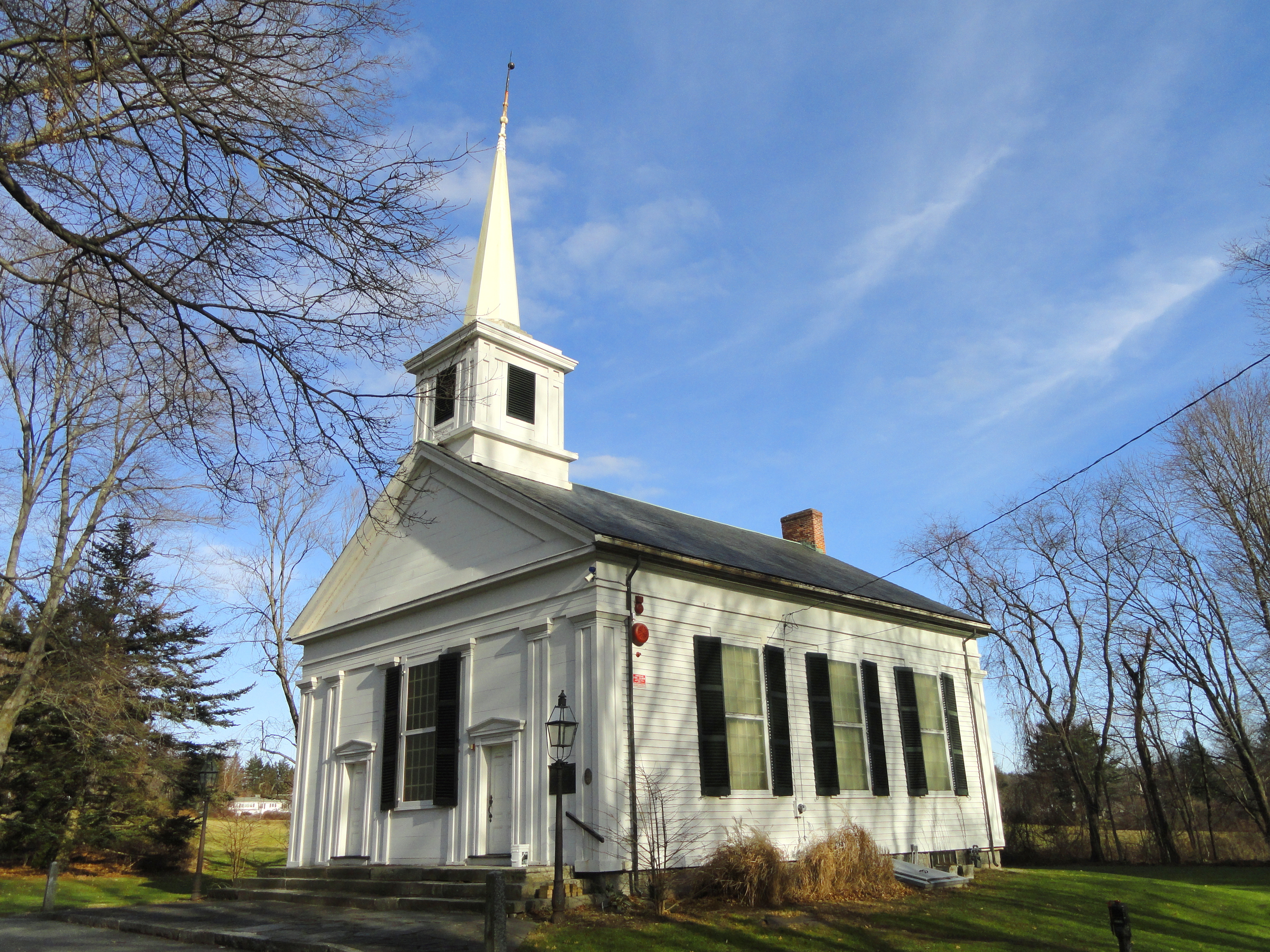 Joseph Allen Skinner Museum, 33 Woodbridge Street, South Hadley, Massachusetts, USA. Now administered by the Mount Holyoke College Art Museum.